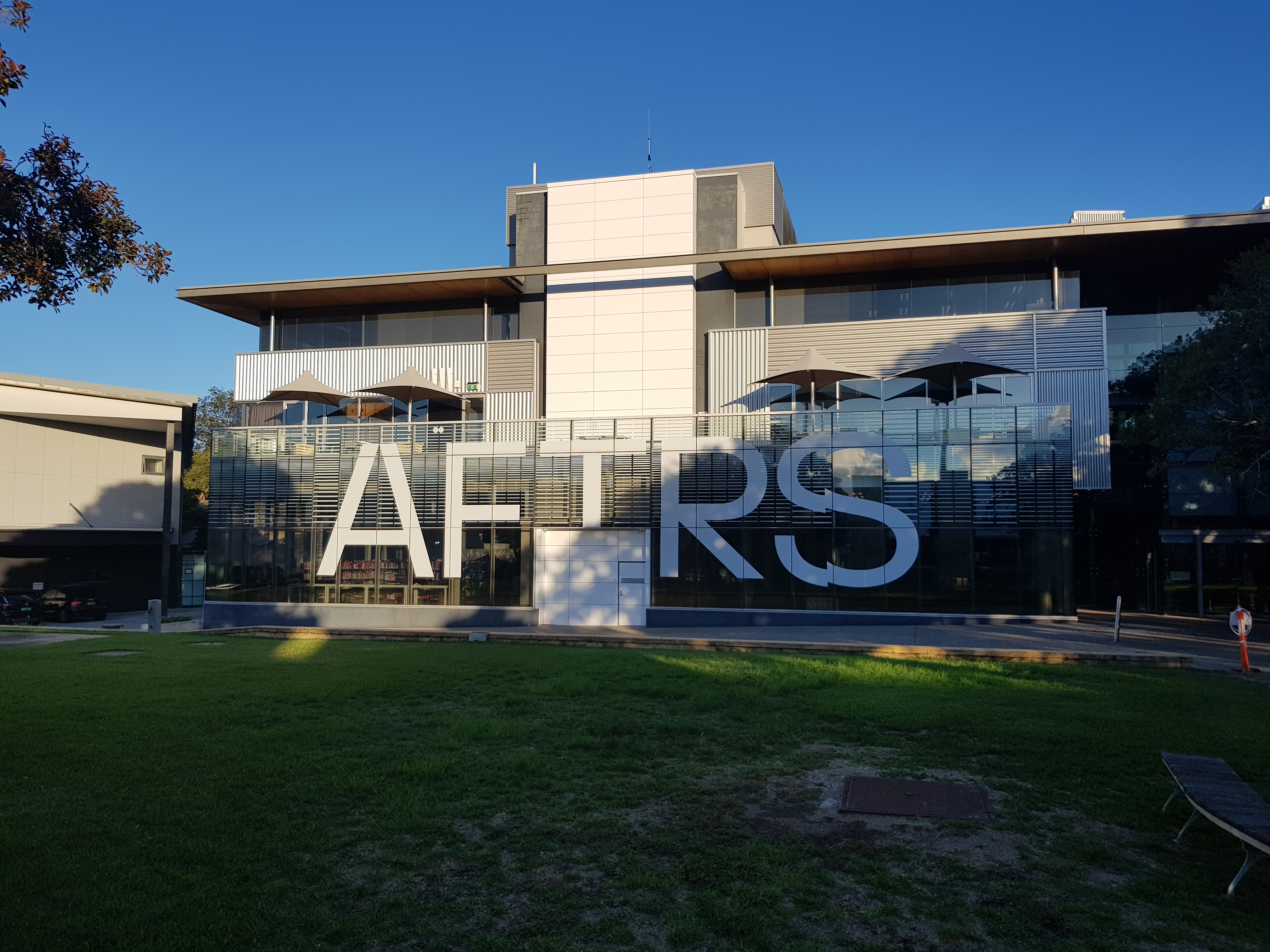 The left side of the front fascade of the AFTRS buidling